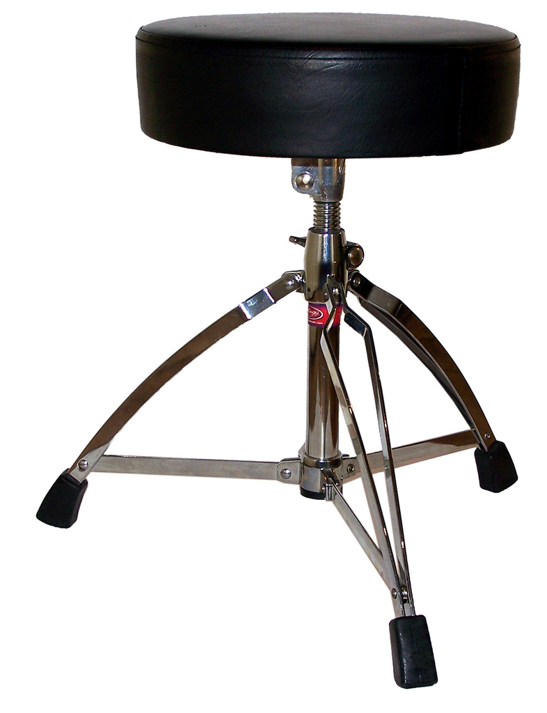 drum chair